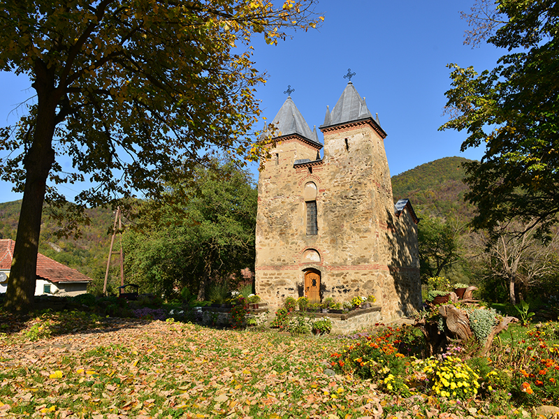 Church